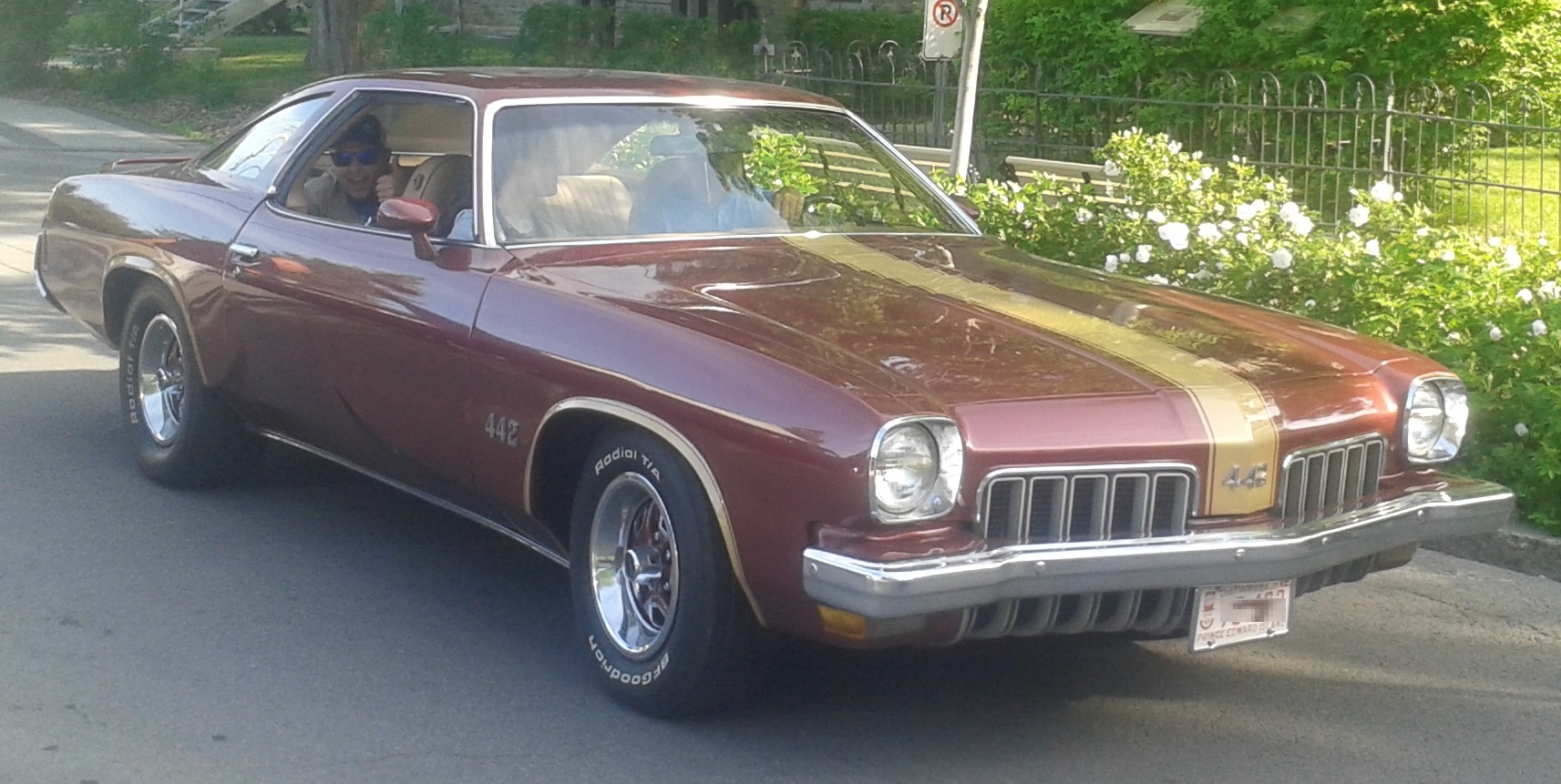 1973 Oldsmobile 442 photographed in Ste. Anne De Bellevue, Québec, Canada at the car show Cruisin' At The Boardwalk 2018.